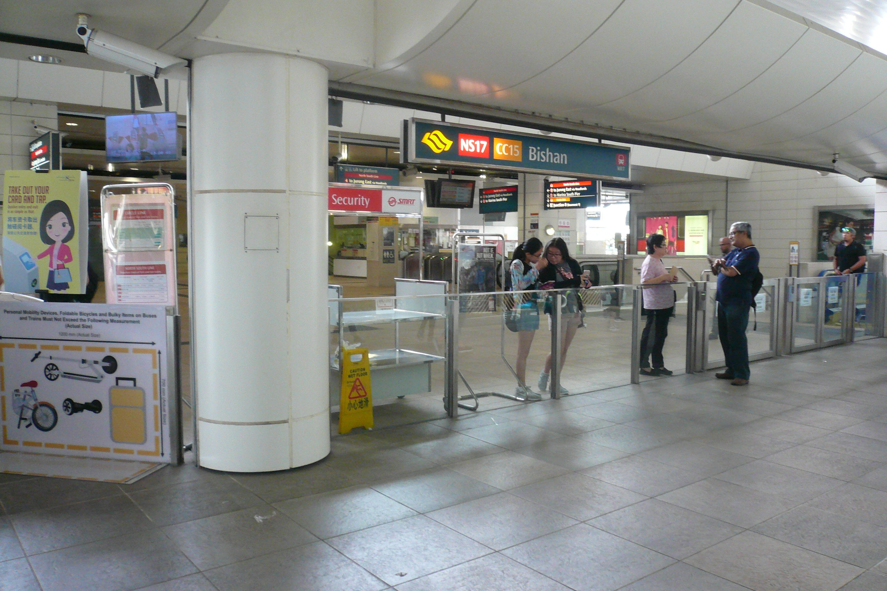 Exit A of Bishan MRT Station